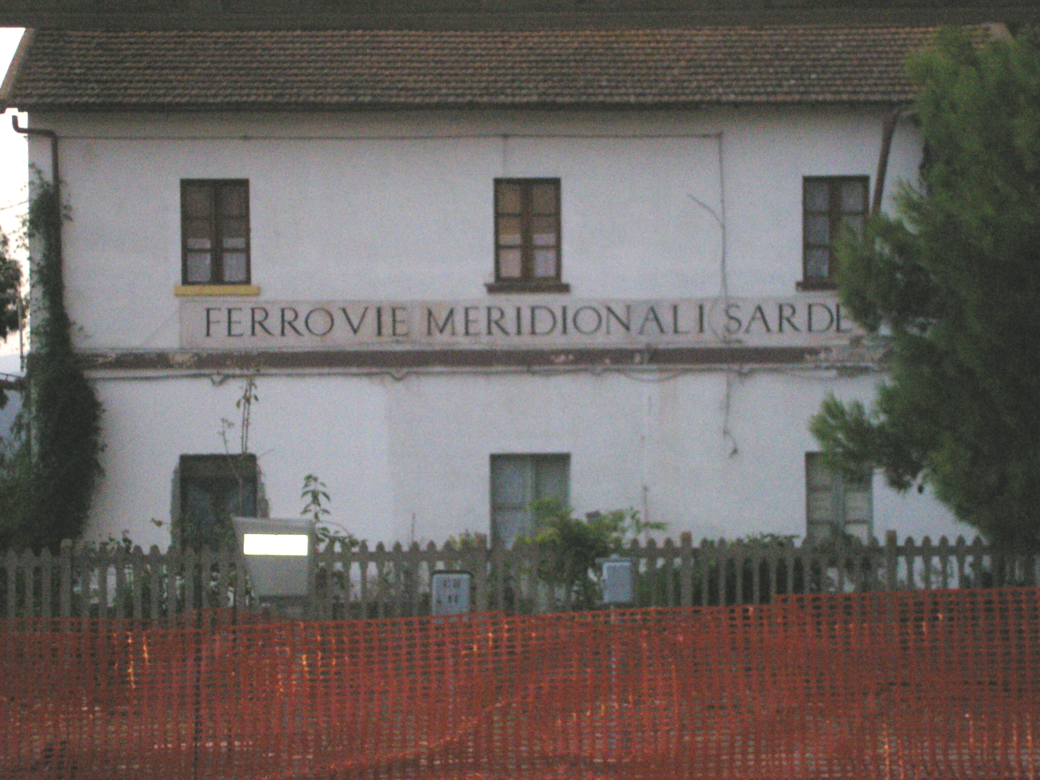 The former Ferrovie Meridionali Sarde station of Siliqua, end of the railway Siliqua-Calasetta (closed between 1968 and 1974), as seen from the FS station of Siliqua, in Sardinia, Italy